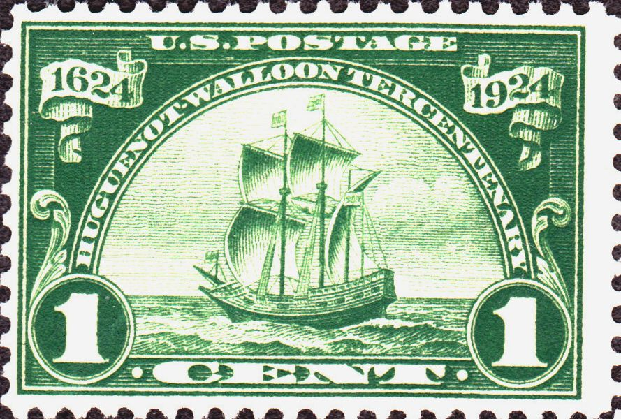 Huguenot Walloon_300th aniv 1924 issue US Postage stamp